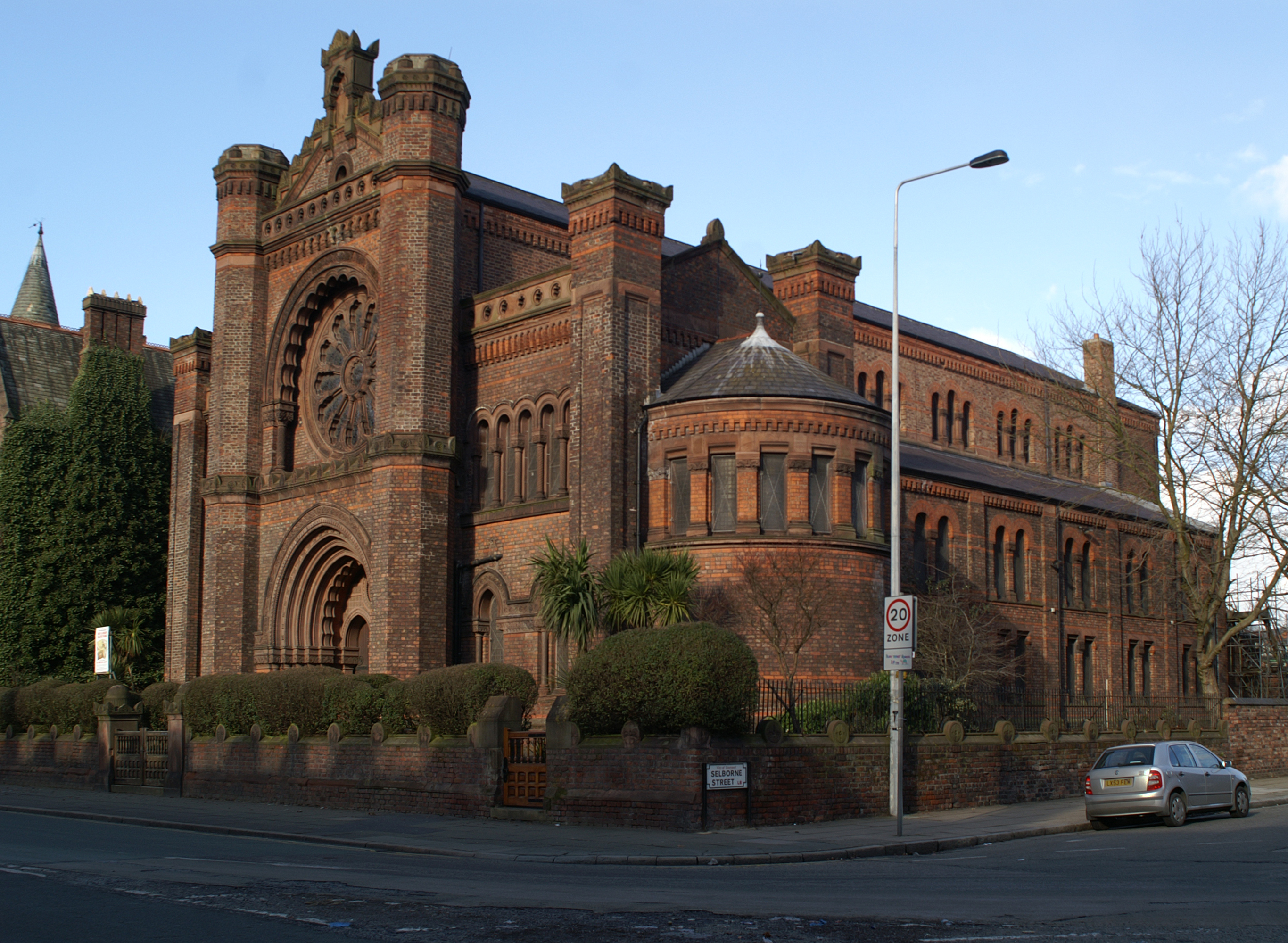 The Synagogue of the Liverpool Old Hebrew Congregation In Princes Road, Toxteth